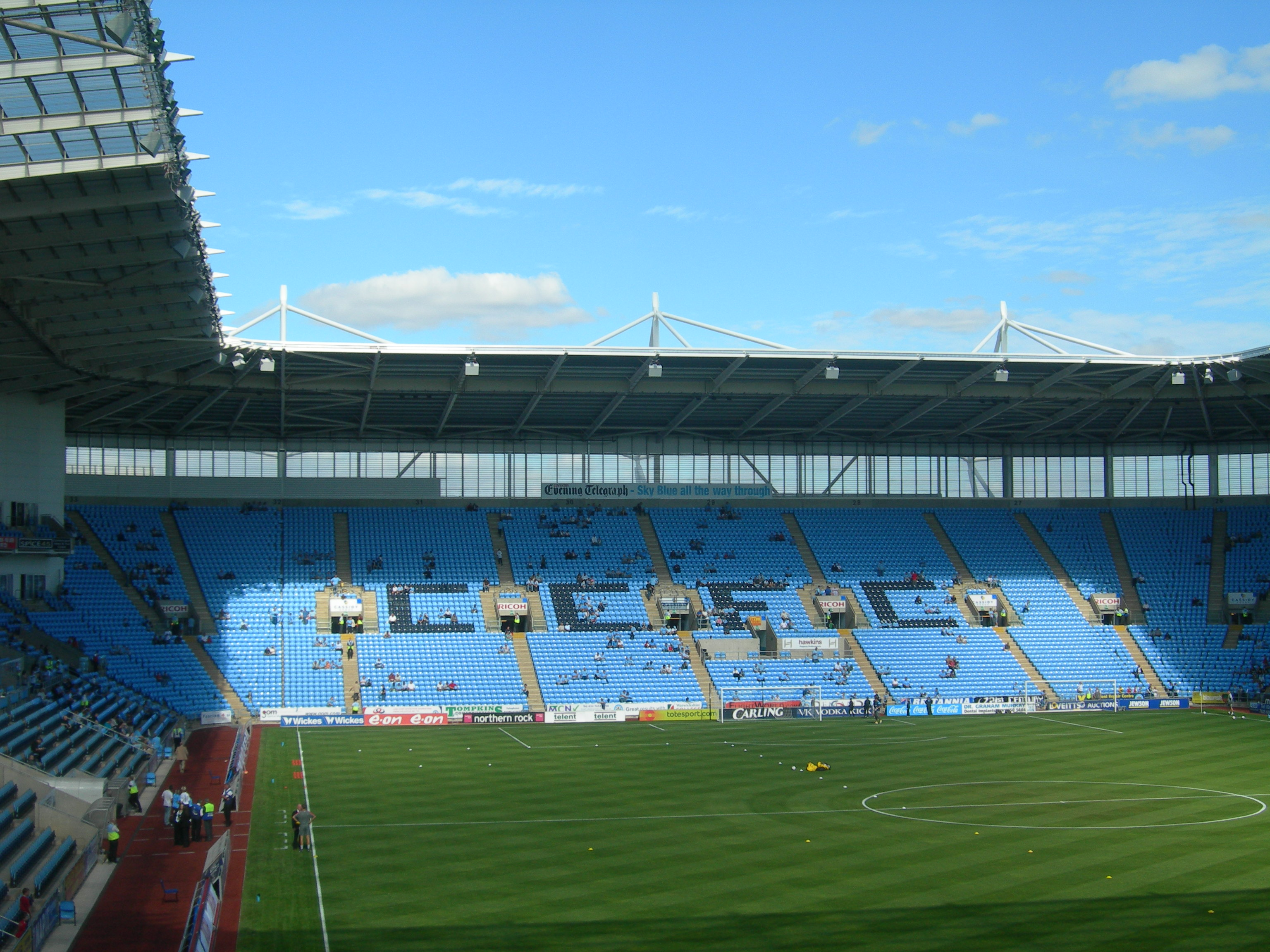 I took this photo on 12/09/07. It has no URL as it is not posted on any other web page (As Yet)